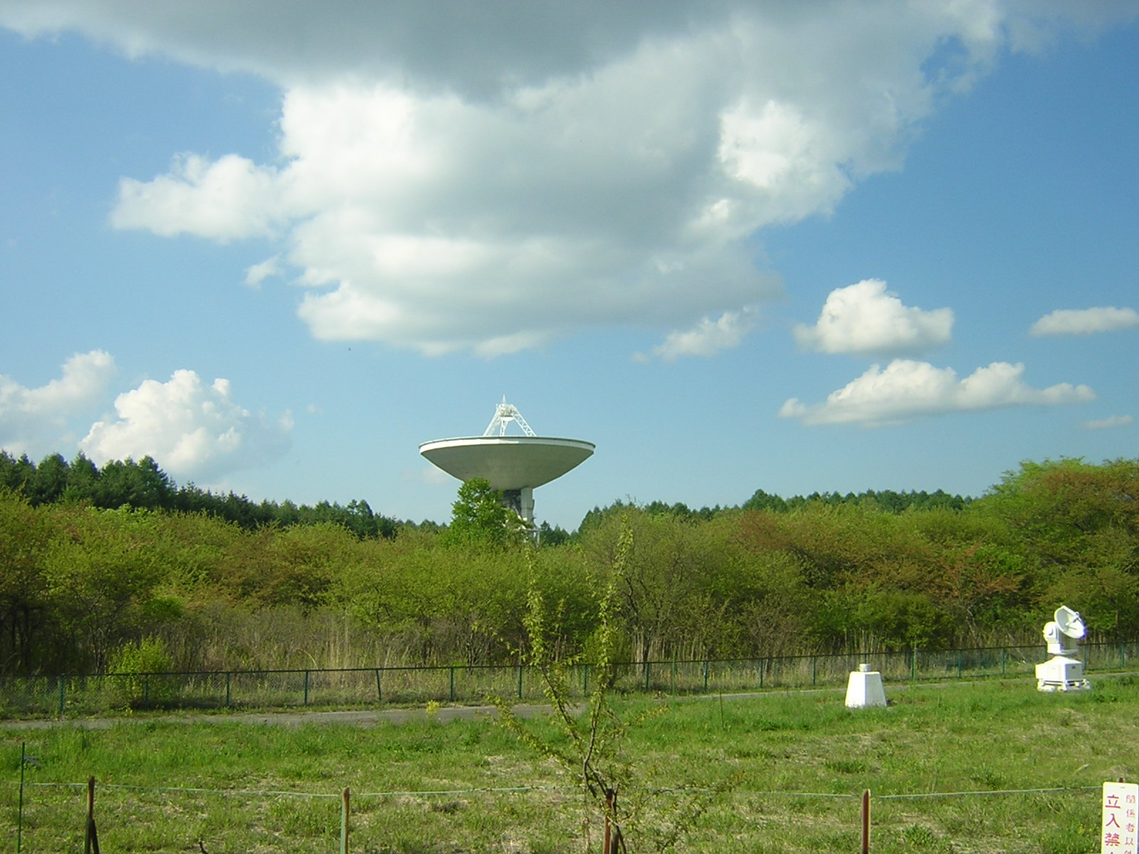 The 45m Radio Telescope of the NAOJ at Nobeyama.